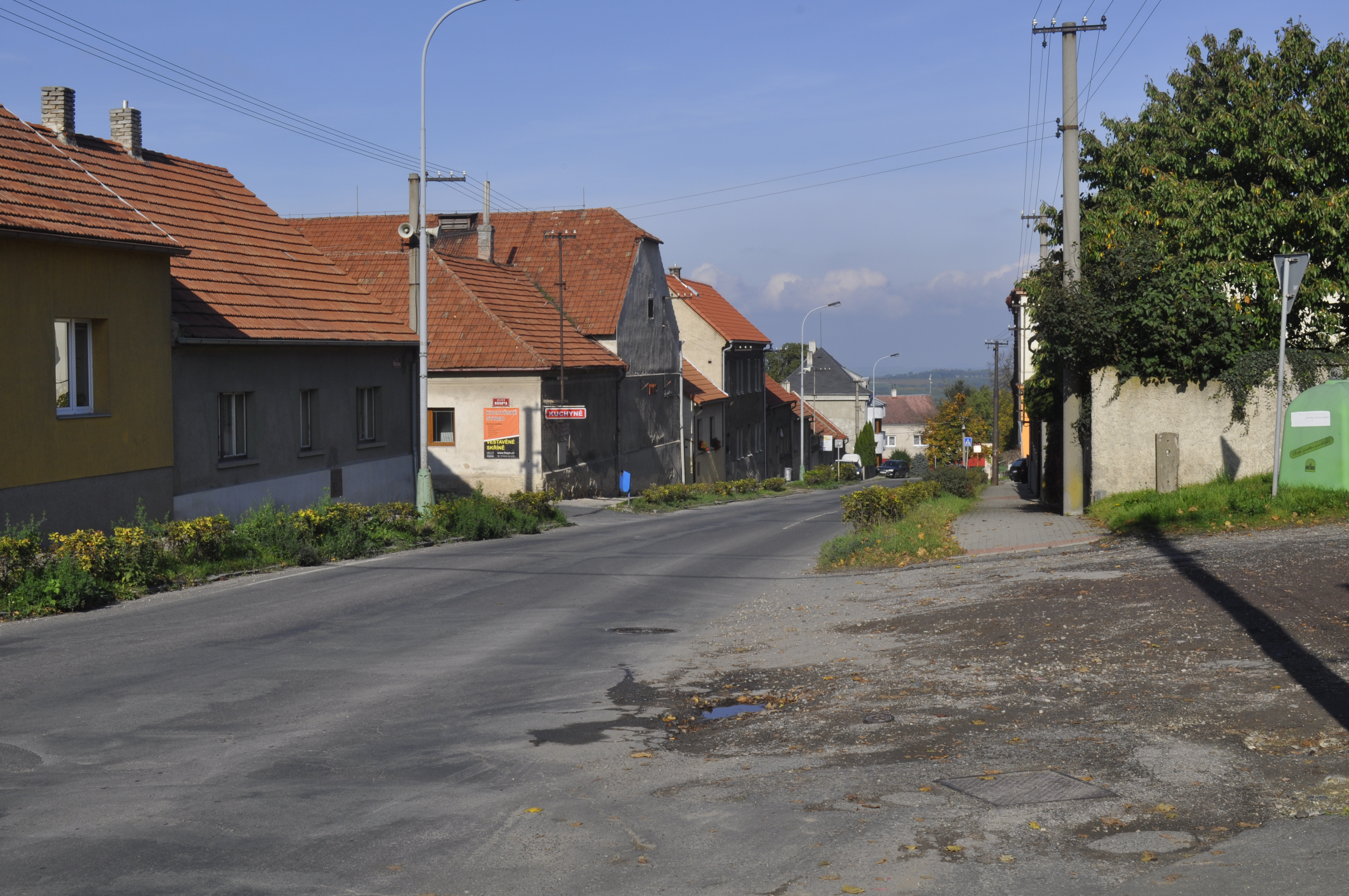 Humny - 5. května (May 5) street